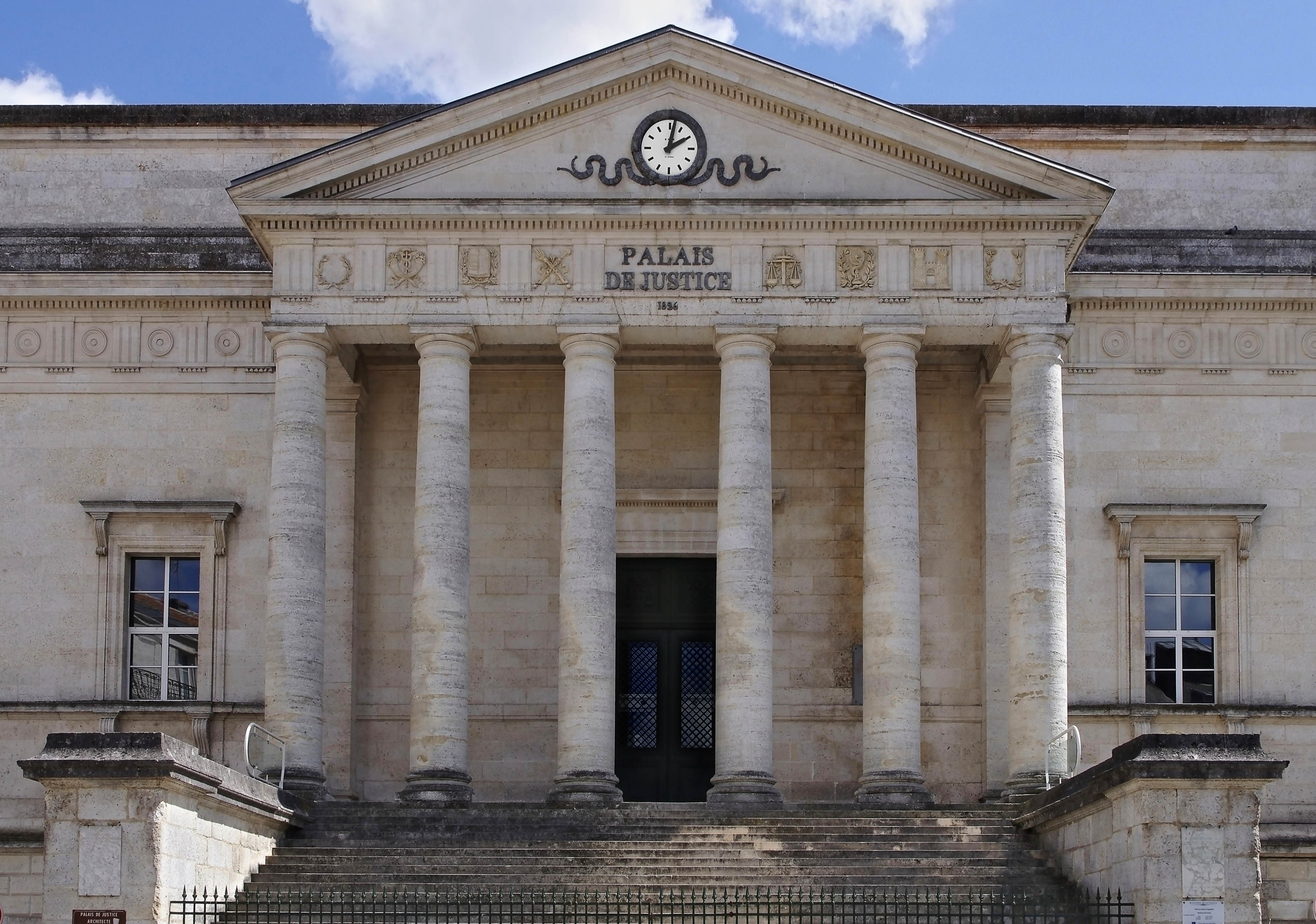 Façade of the courthouse (1826), Angoulême, France. Architect : Paul Abadie, senior (1783-1868)